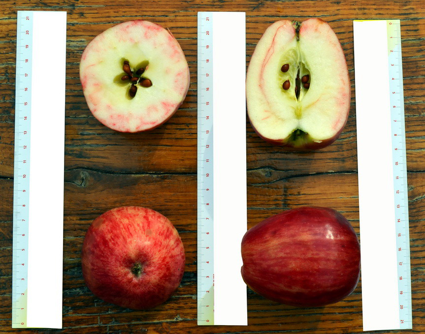 Сеянец Титовки в разрезе фото В.Брыкина